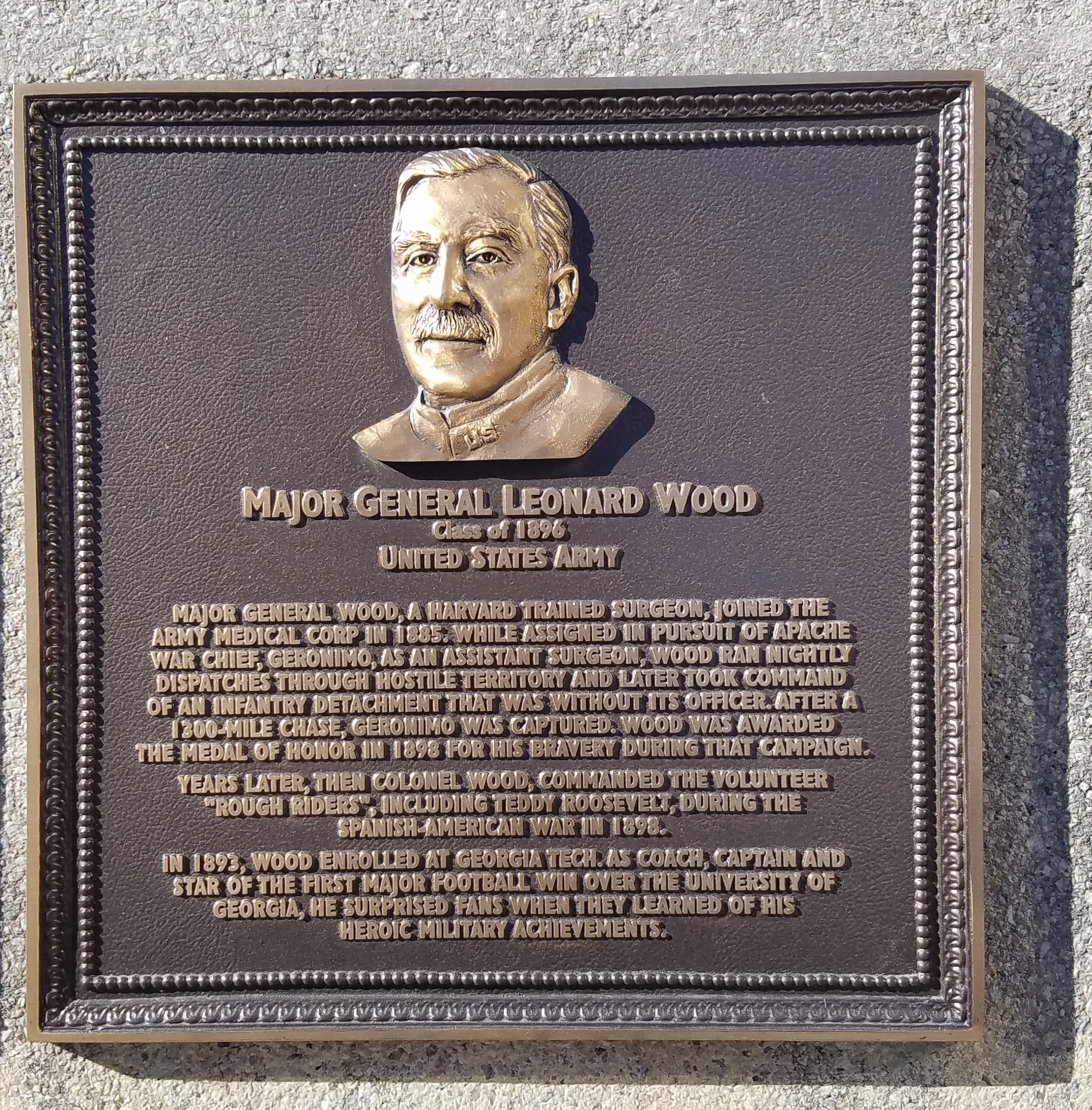 Plaque for Leonard Wood at the Wardlaw Center at Georgia Tech.